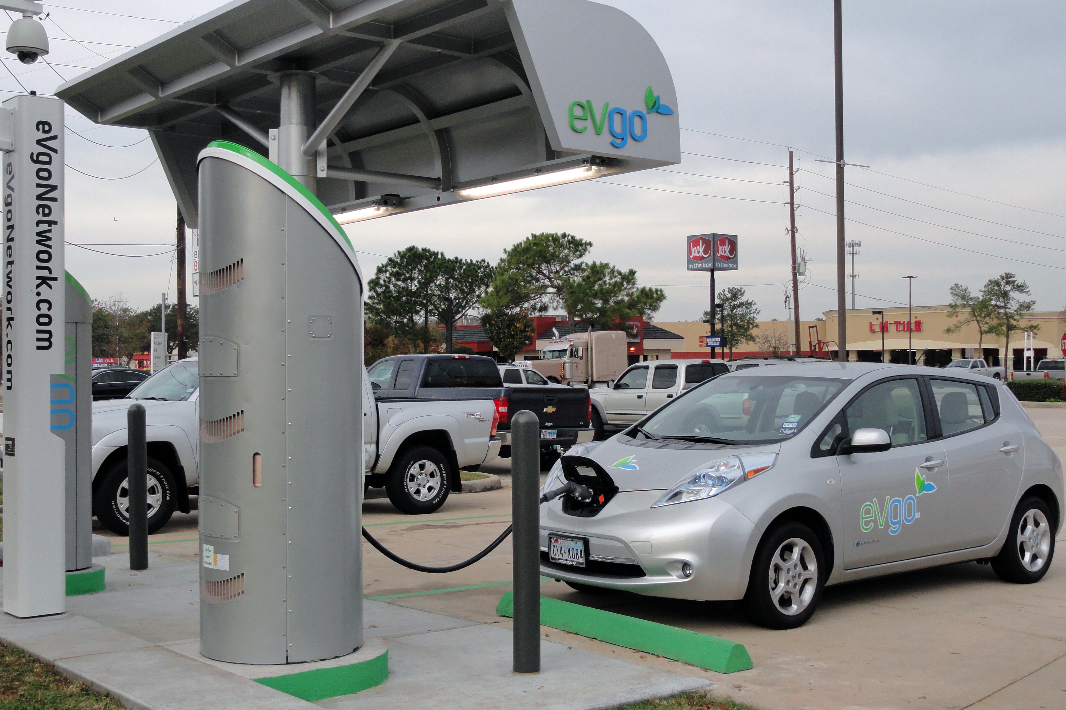 Nissan LEAF charging at the Freedom Station in Houston, TX. This is an eVgo Network station with both Level 2 and DC fast chargers.